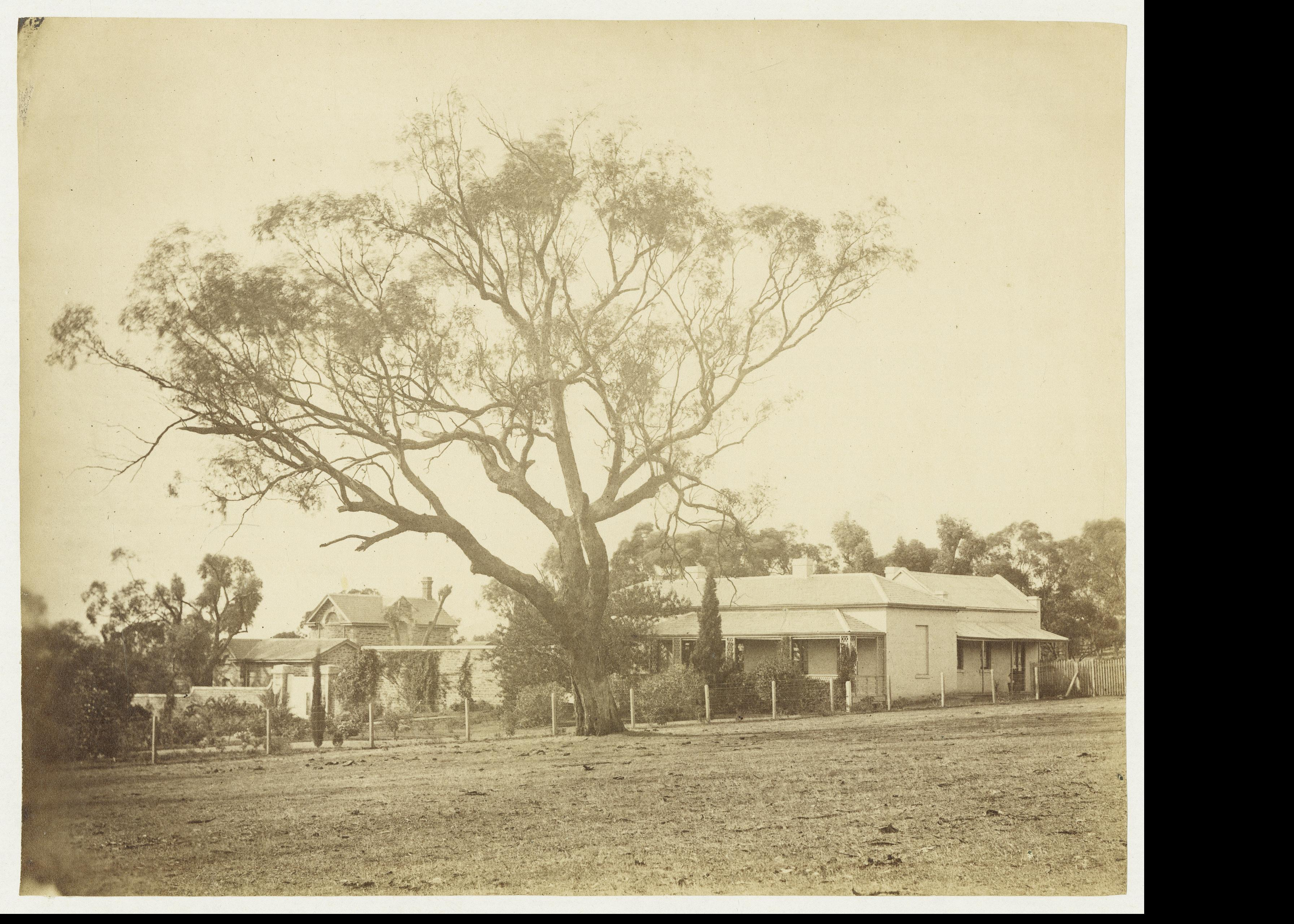 Glen Osmond: "Benacre" Benacre house (without land) is at 6 Benacre Close, off Glen Osmond Rd between Fisher St and Fergusson Ave. 1844 a single-storeyed house was built by G.F. Shipster after the subdivision of section 270 by the main road it passed to Robert Cock. 1846 Purchased on 16 acres by William Bickford who planted the first garden and built a portion of the residence. The next owner was T.B. Strangways, followed by Thomas Graves, who had the grounds replanted as a shrubbery and built 'the present two-storey house.' mid-1870's: Henry Scott, Mayor of Adelaide. During Scott’s tenure of some 30 years, he hosted countless social events. 1906-1923 John Lewis At the death of Hon. John Lewis the property was subdivided into 39 building blocks. 1924-1968 Gretta Lewis ... 1970 Further subdivision: Benacre subdivision [fifteen magnificent residential allotments, the gracious mansion 'Benacre', two storeyed stone mews, to be sold by auction on the estate 2nd May, 1970 at 10.30 a.m.] Adelaide : Matters & Co. Pty. Ltd. [and] Theodore Bruce & Co. Pty. Ltd. ...